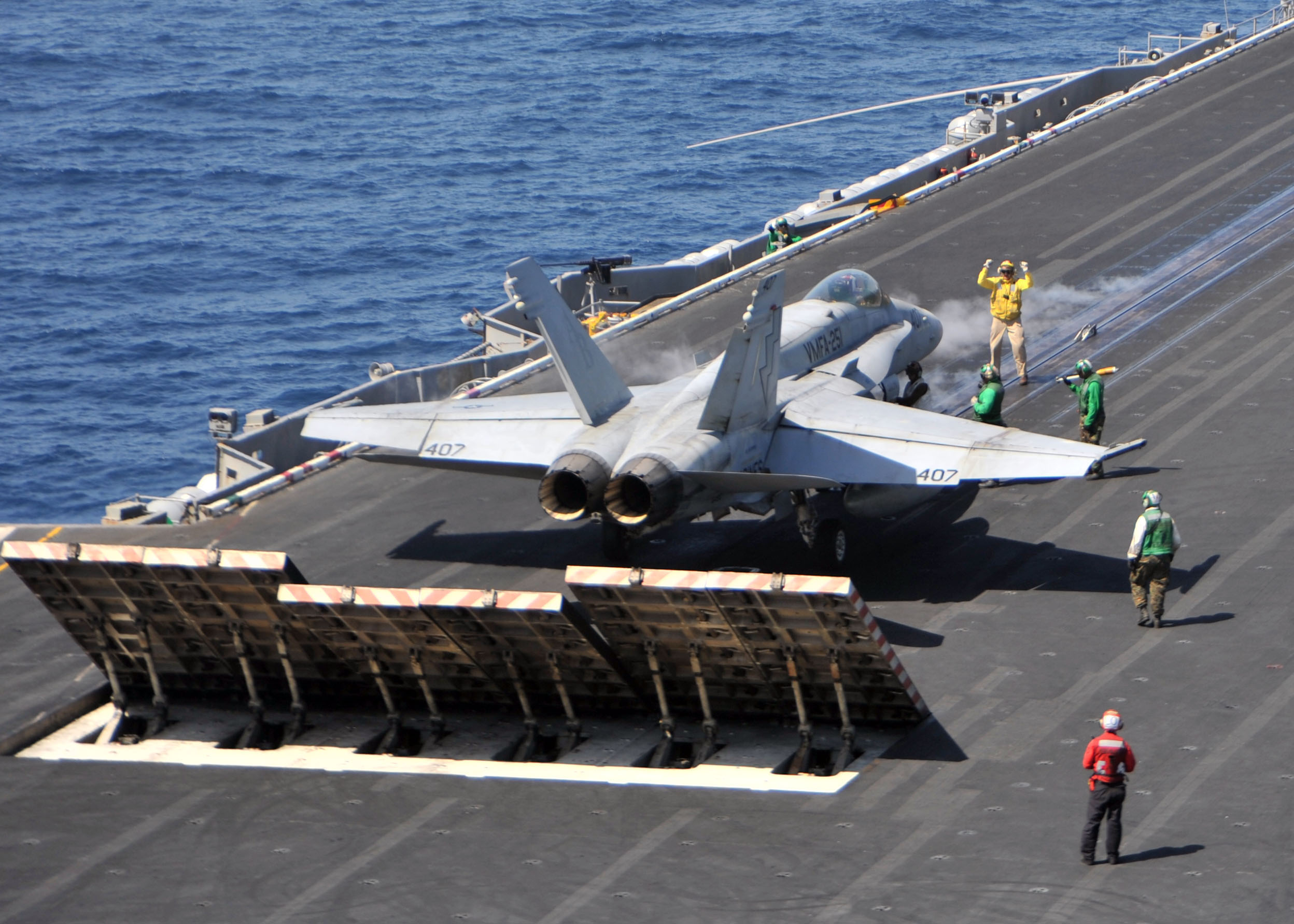 RED SEA (March 17, 2011) A shooter signals to the pilot of an F/A-18C Hornet assigned to the Thunderbolts of Marine Fighter Attack Squadron (VMFA) 251 as it prepares to launch from catapult two aboard the aircraft carrier USS Enterprise (CVN 65). Enterprise and Carrier Air Wing (CVW) 1 are on a routine deployment conducting maritime security operations in the U.S. 5th Fleet area of responsibility. (U.S. Navy photo by Mass Communication Specialist Seaman Jared M. King/Released)